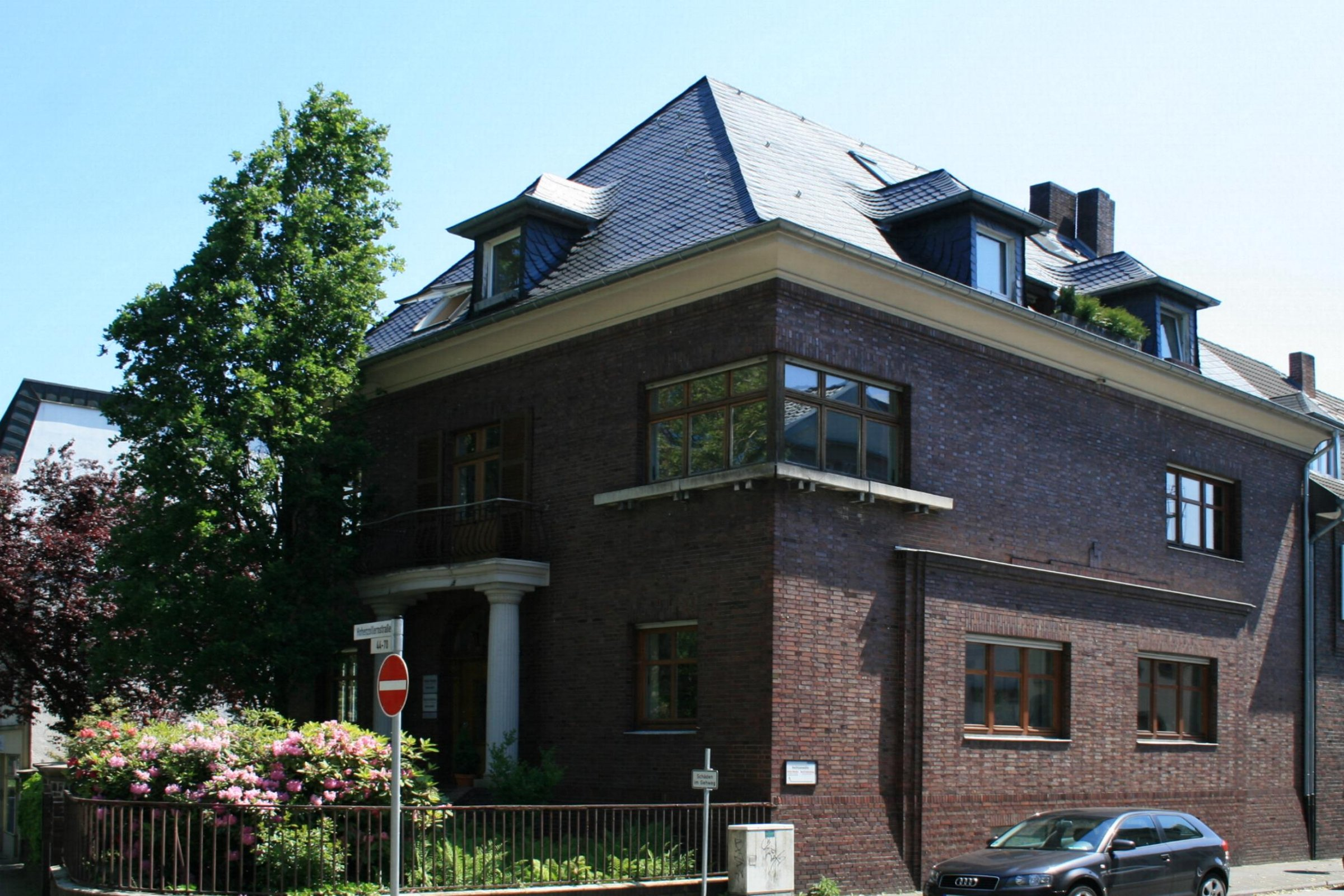 Cultural heritage monument No. H 038 in Mönchengladbach